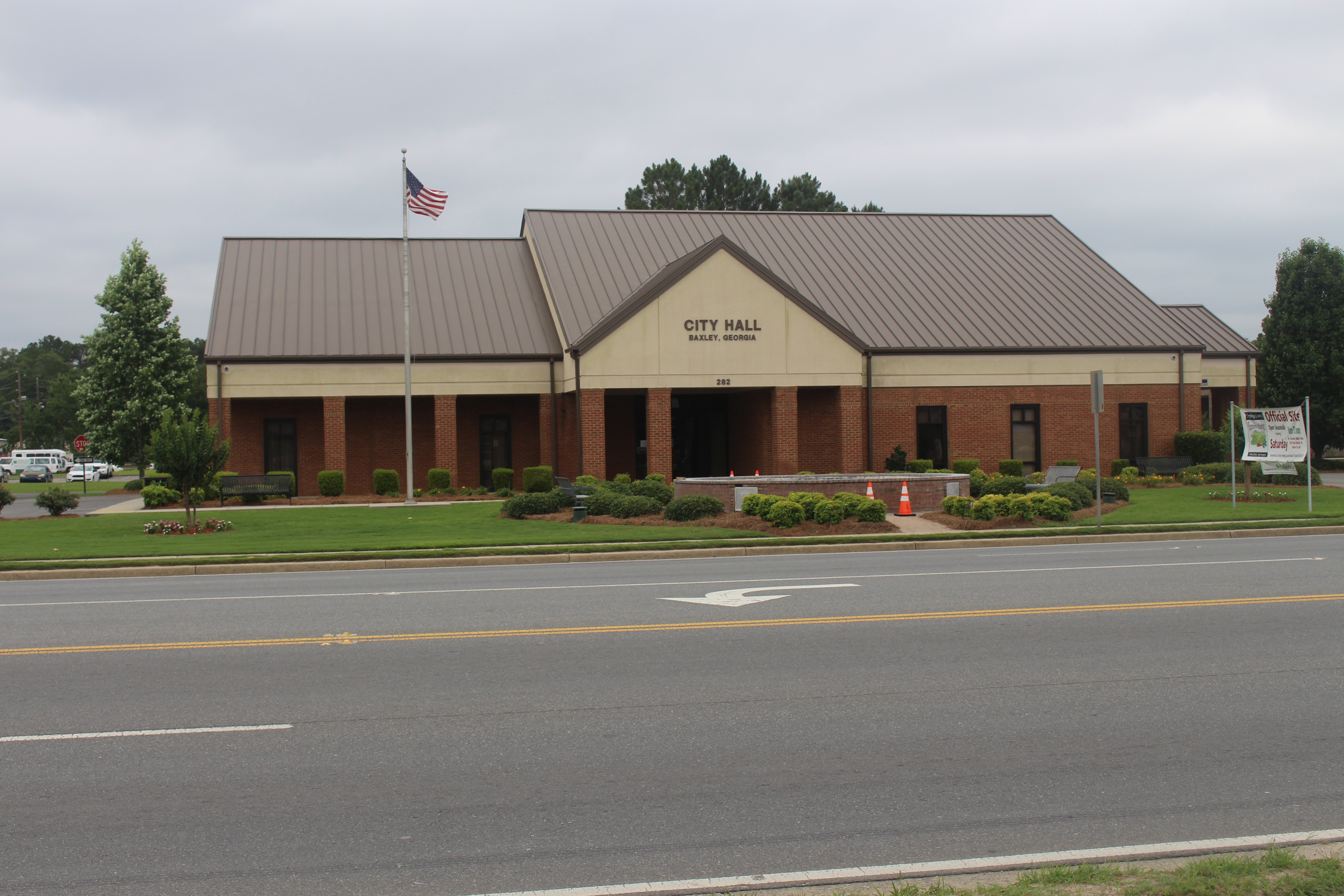 Baxley City Hall, Baxley, Appling County, Georgia